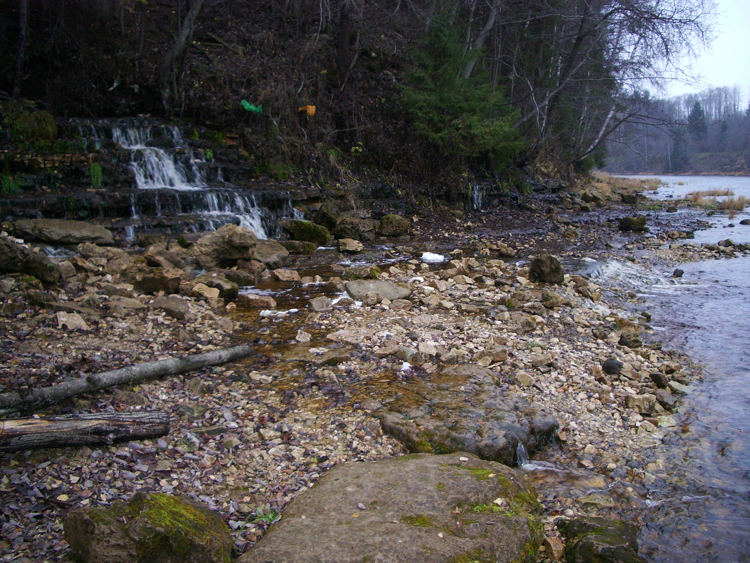 Poneretka River, a tributary of Msta, is flowing out of the ground